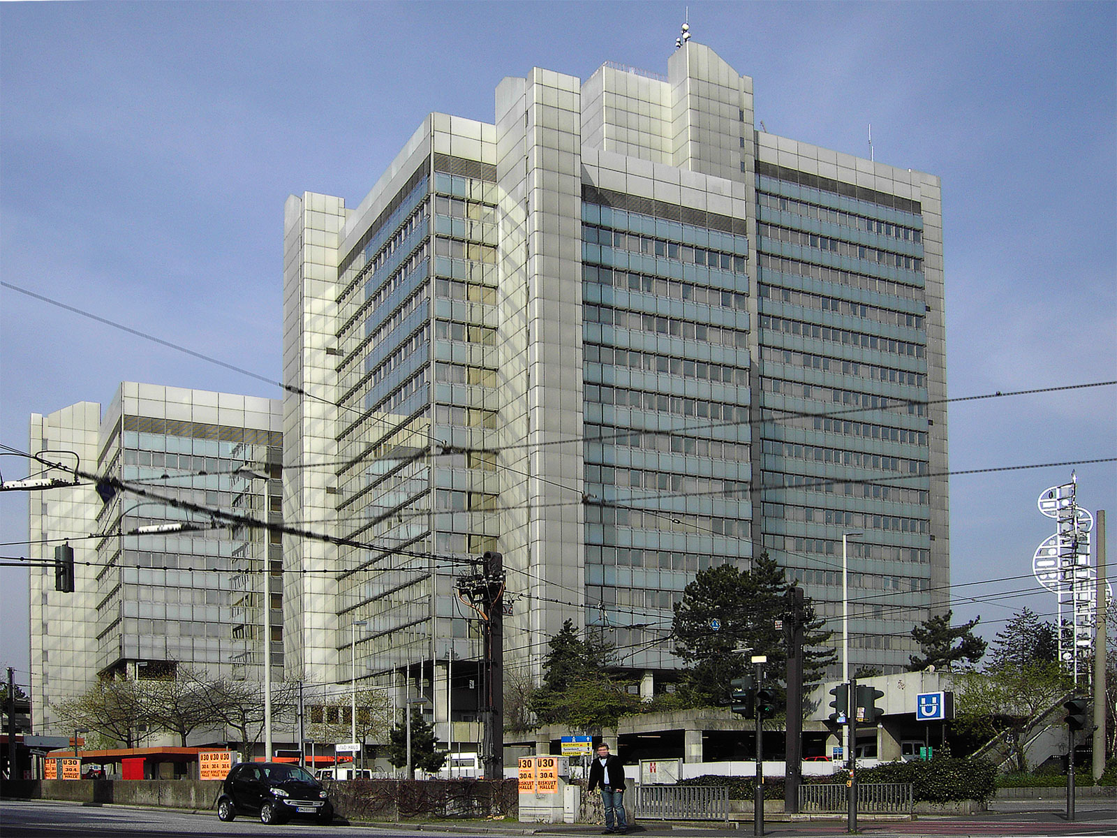 City administration building in Bonn.